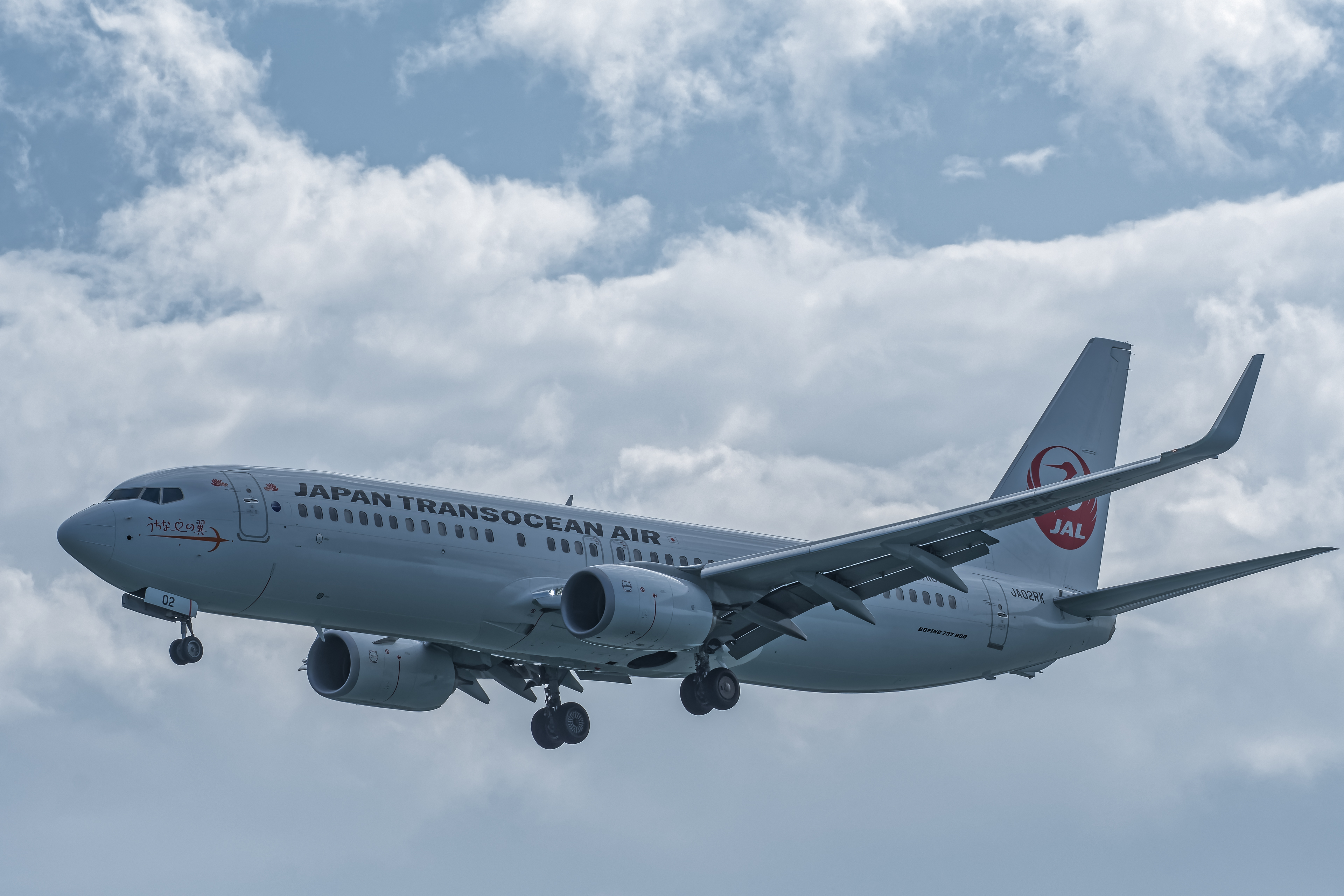 The second Boeing 737-800 for Japan Transocean Air.